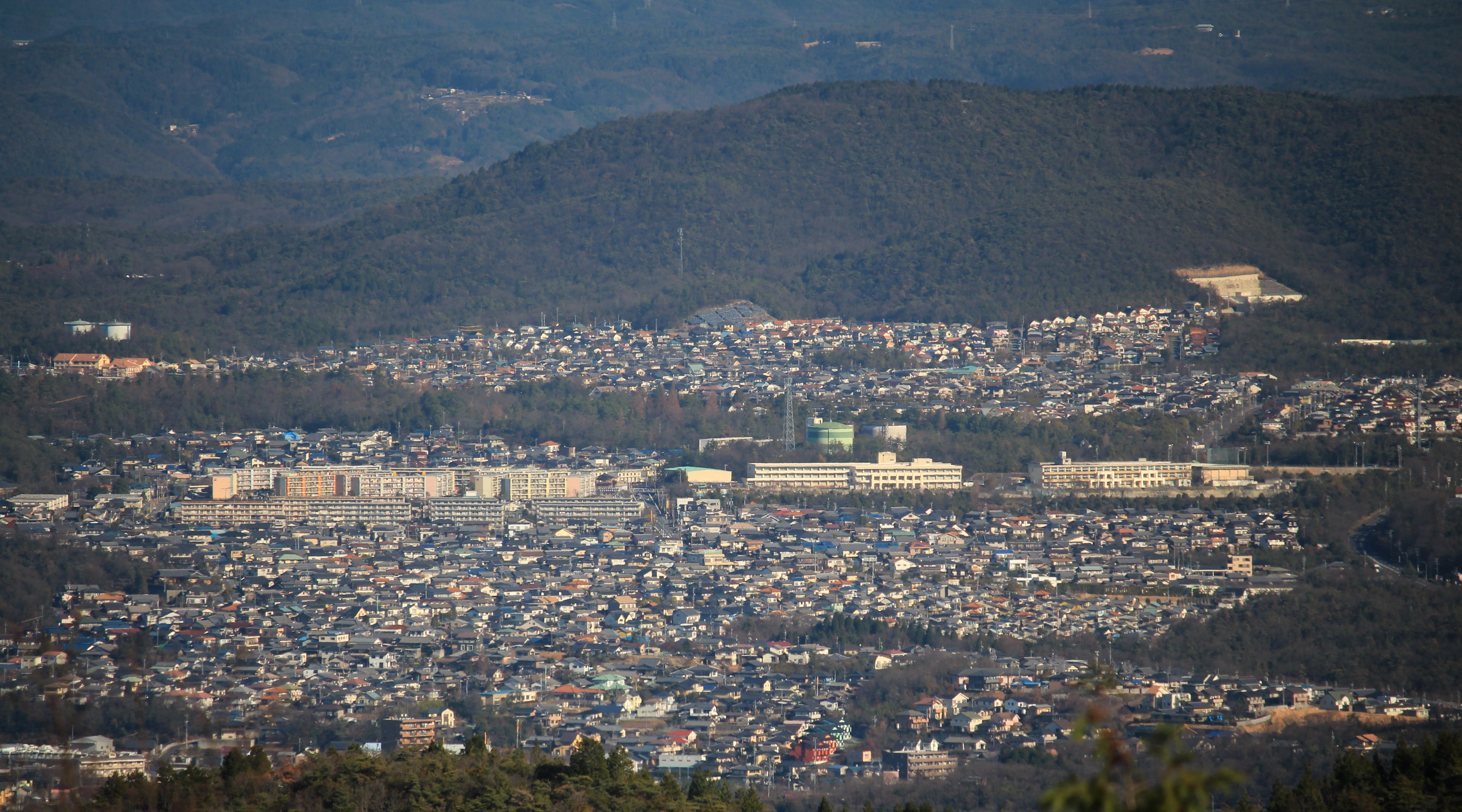 Mount Sengen seen from Mount Miroku in Kani and Tajimi, Gifu Prefecture, Japan.